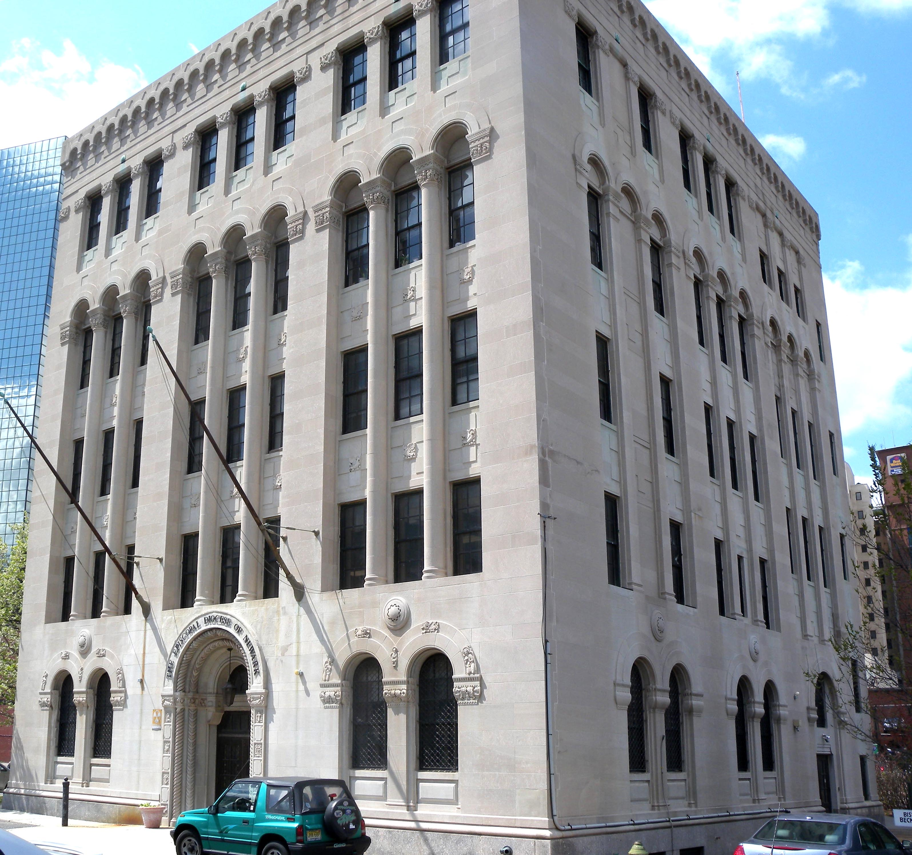 Looking west at office building of Episcopal See of Newark at midday.